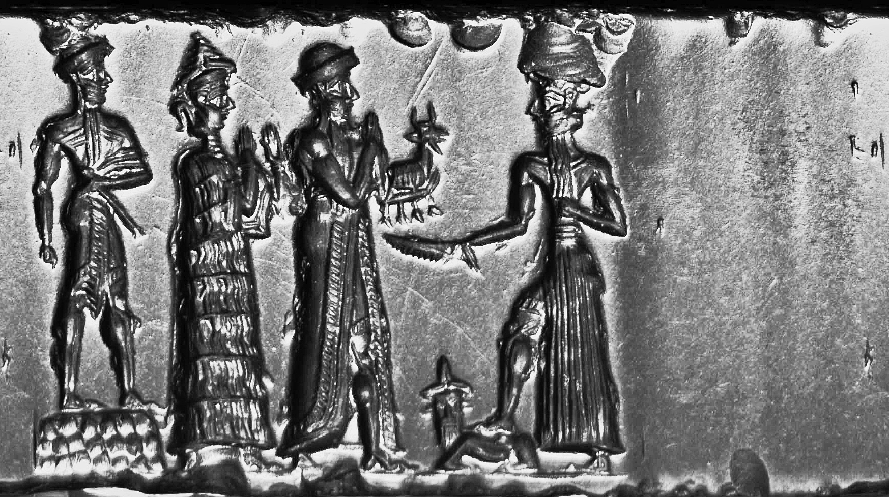 The king with a mace, who stands on a rectangular chequer-board dais, follows the suppliant goddess (with necklace counterweight), and the robed king with an animal offering. They stand before the ascending Sun god who holds a saw-toothed blade and rests his foot on a couchant human-headed bull (full face). Traces remain of an inscription (probably of four lines) erased in antiquity. The style of this seal suggests that it was made in a Sippar workshop. Haematite; chipped. 3.05 x 1.66 cm. This seal was among eight given to the school by Leonard Marshall in 1896. Ex. Charterhouse Collection (Charterhouse registry no. 2-1956-22) Published: Moorey, P.R.S. and Gurney, O.R. (1973), ‘Ancient Near Eastern Seals at Charterhouse’, Iraq, 35, p.76, no.13, pl.34. Sotheby’s sale catalogue, The Charterhouse Collection, London, 5/11/02, Lot 142. (IMAGE MADE WITH DALSA SP-13 SPYDER LINESCAN CAMERA AND NI-IMAQ SOFTWARE)